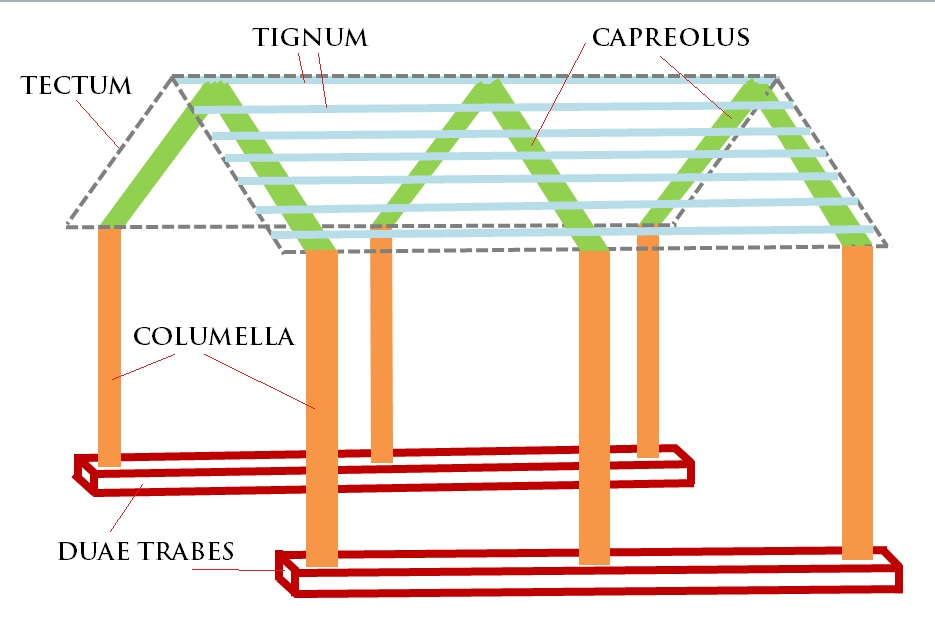 the structure of a Musculus of Roman army for the siege of Massilia in 49BC